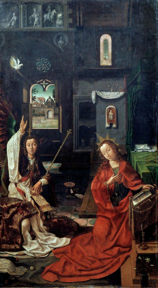 The Annunciation (c. 1506-11), by Grão Vasco, part of the polyptych of the High Chapel of the Lamego Cathedral.